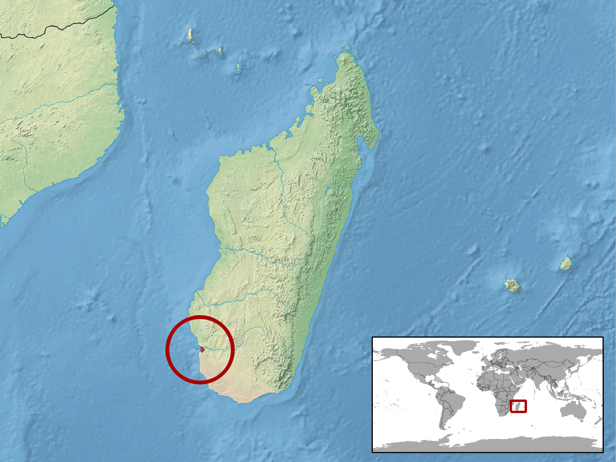 geographic distribution of Paragehyra petiti (Native: Madagascar)